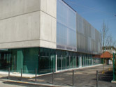 Supmeca Paris nouveau Bâtiment